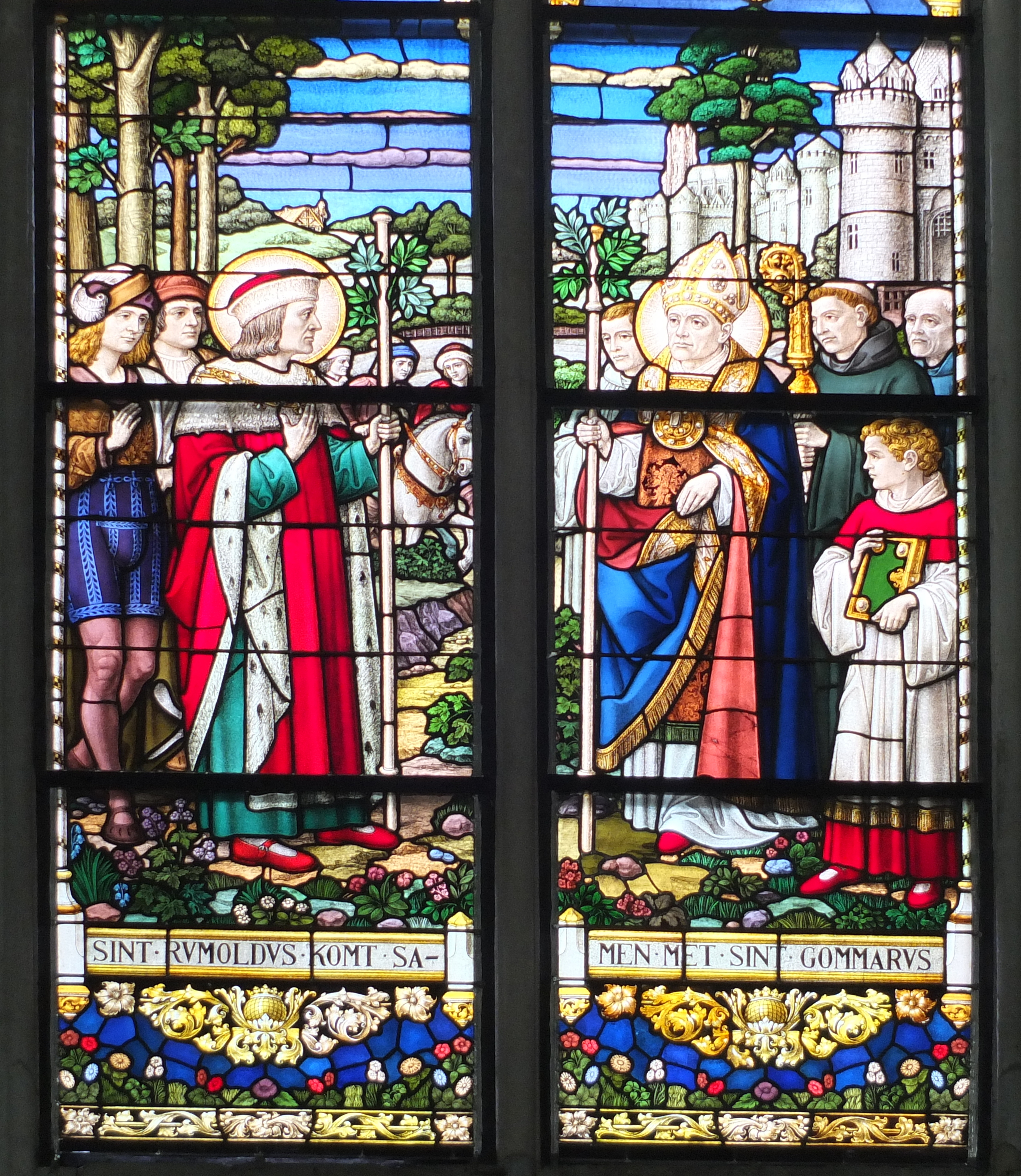 Stained glass windows with scenes from the life of Rumbold of Mechelen in St-Rumbold's Cathedral (Mechelen, Belgium).